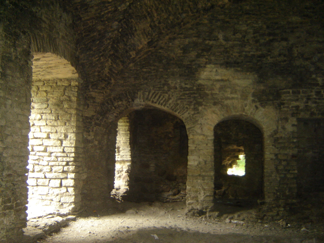 Ruins of Järve vassal castle in Estonia.